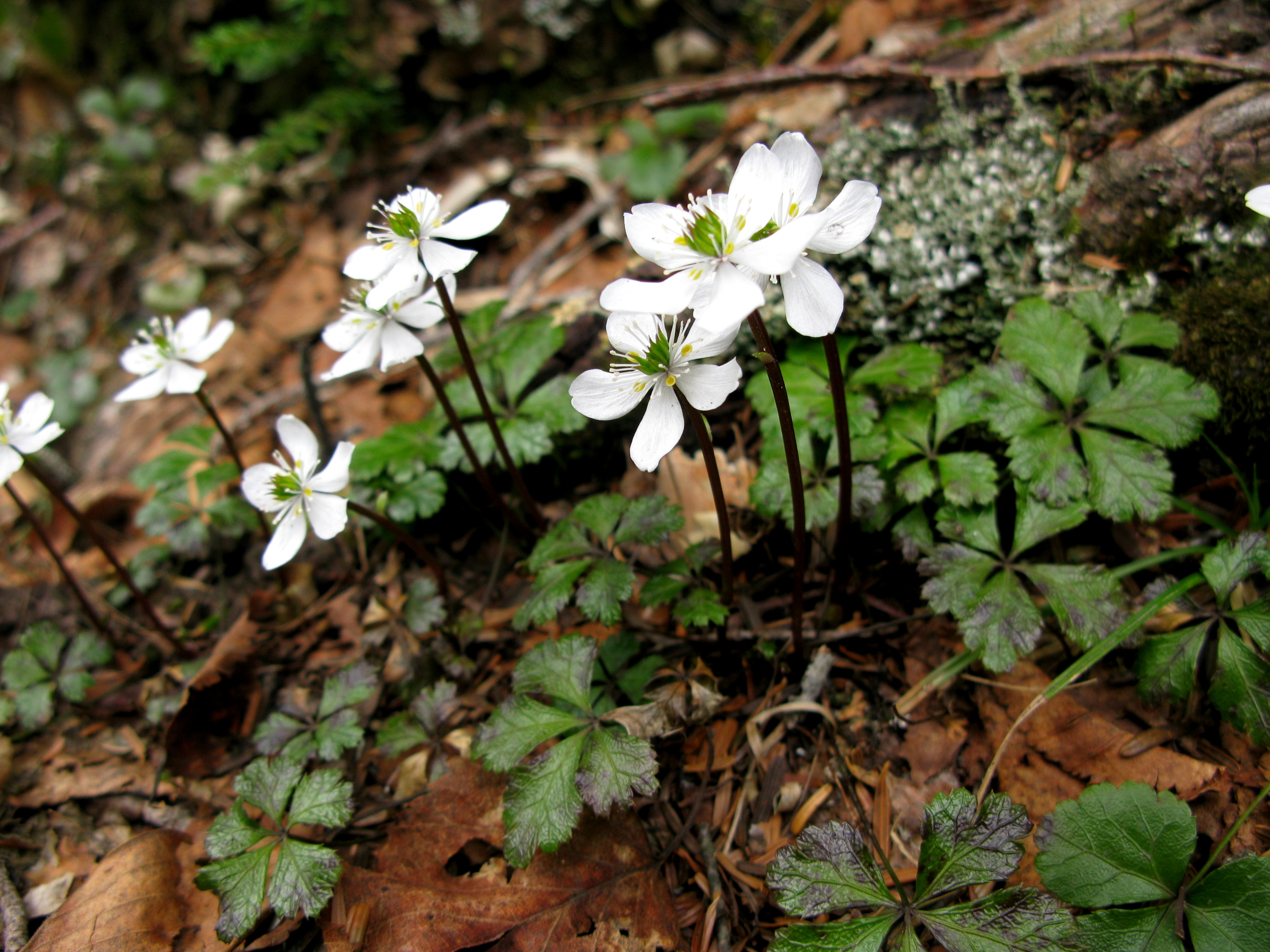 Coptis quinquefolia, Mt. Nishiazuma, Yamagata pref., Japan